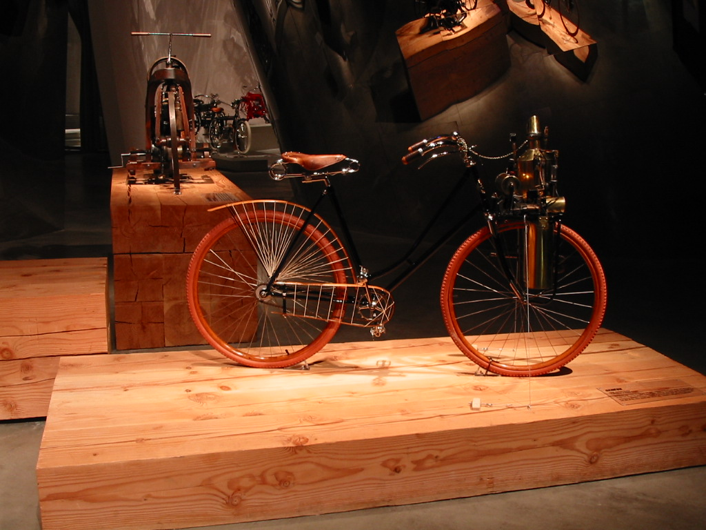 Geneva steam bicycle, United States, 1896. Bore x stroke 1.5x1.5 in, .5 hp, 16 mph. Collection of Peter Gagan. The Art of the Motorcycle. Las Vegas.